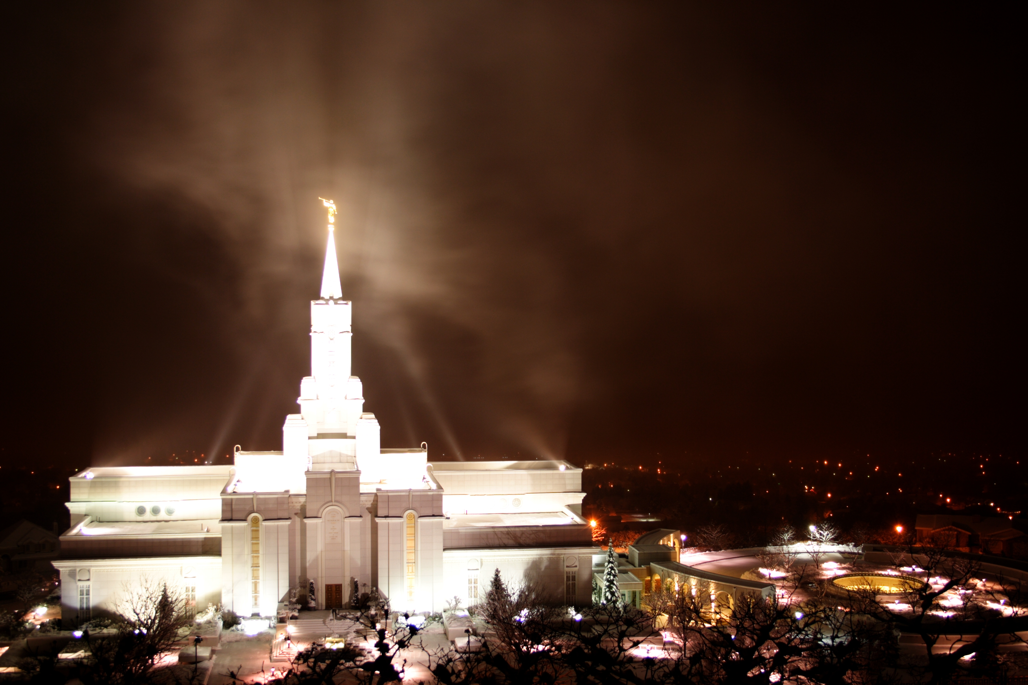 Bountiful Utah Temple of the Church of Jesus Christ of Latter-day Saints By Wesley Davis